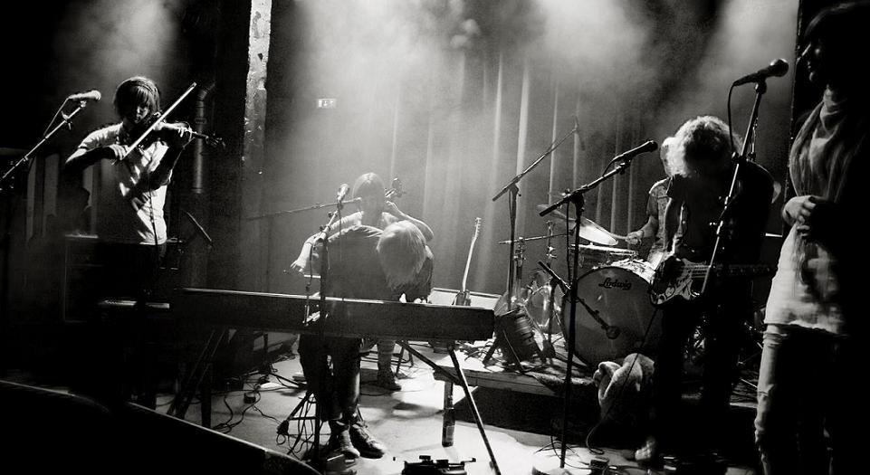 Einar Stray live at Blå, Oslo, april 2009